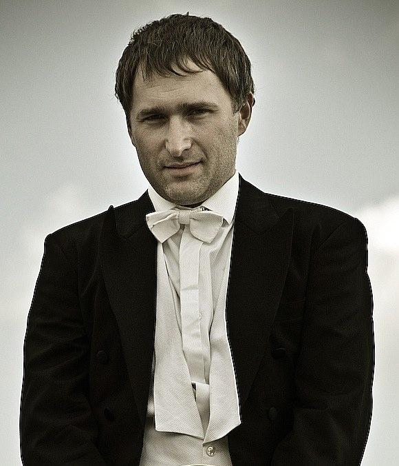 Konstantin Timokhine *1973 In Kiev geboren, gab der Hornist mit 17 Jahren sein Solo-Debüt auf einer Japan- Tournee. Er wurde zunächst in seiner Heimat, später an den Musikhochschulen von Genf bei Bruno Schneider und Winterthur bei David W.Johnson ausgebildet und erlangte zwei Solistendiplome mit höchster Auszeichnung. Es folgten weitere Studien für Barock- und Naturhorn bei Glen Borling an der Orchesterakademie des Opernhauses Zürich. Am internationalen Hornwettbewerb in Minsk (Weissrussland) gewann Konstantin Timokhine den 1. Preis. Ebenso erhielt er einen 1. Preis am CNEM- Wettbewerb in Riddes (CH). Nachdem er Solo-Hornist im Kammerorchester Genf, Hornist im Orchester der Oper Zürich und Solo-Hornist im Symphonie- orchester St.Gallen war, konzertiert der erfolgreiche Künstler heute weltweit als Solo-Hornist mit renommierten Ensembles und Orchestern wie Les Musiciens du Louvre unter Marc Minkowski, dem Kammerorchester Basel, Orchester Ensemble Kanazawa (Japan)